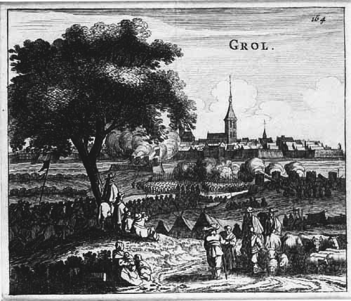 The Siege of Groenlo in 1627